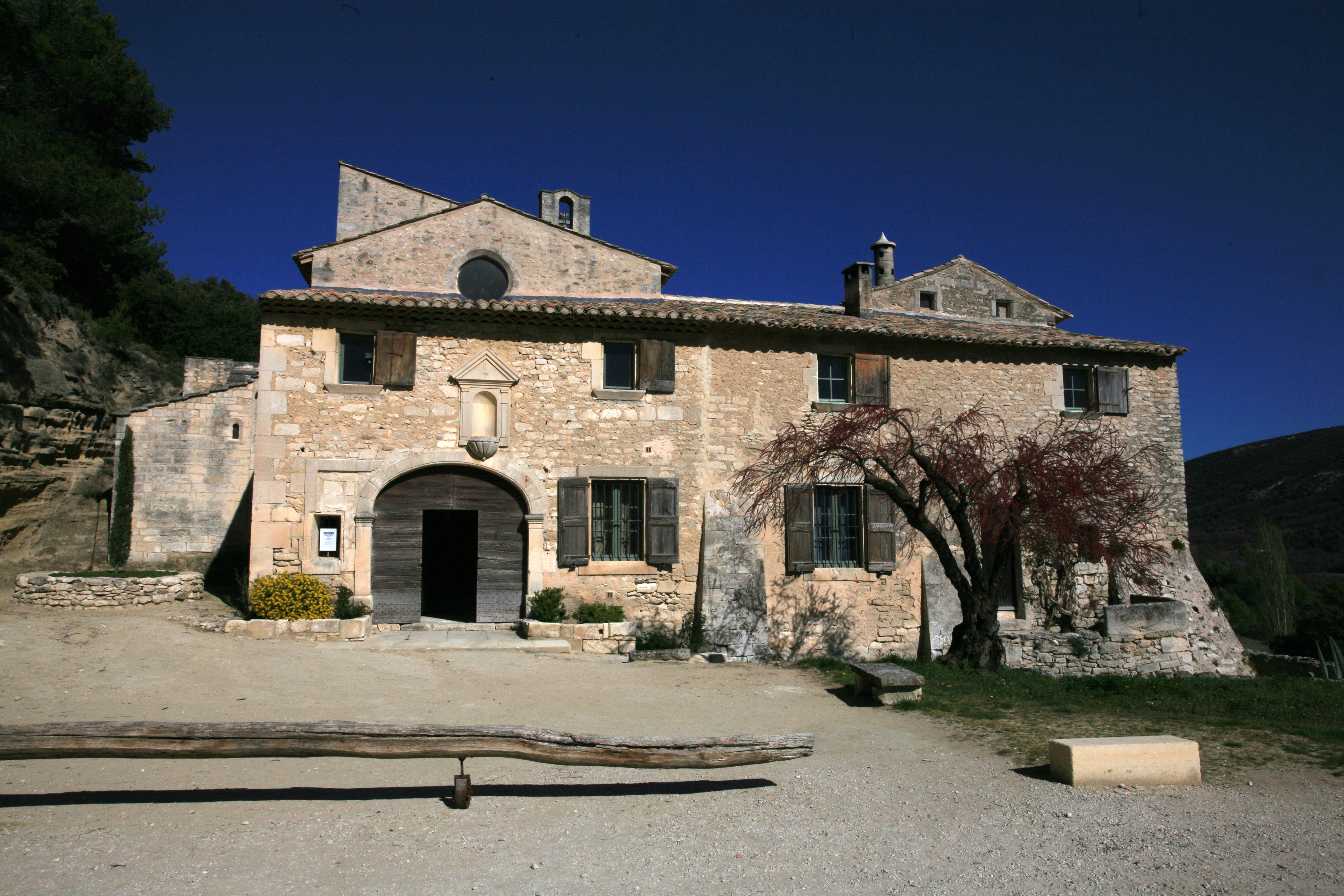 the Prieuré st Hilaire in Menerbes, France, view from West.